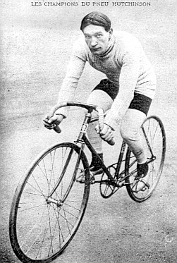 Charles Crupelandt (born in Wattrelos, October 23, 1886 - Roubaix, February 18, 1955) was a French professional road bicycle racer.